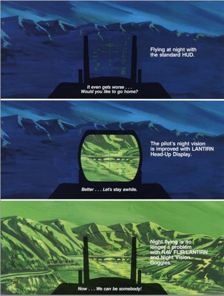 LANTIRN POD